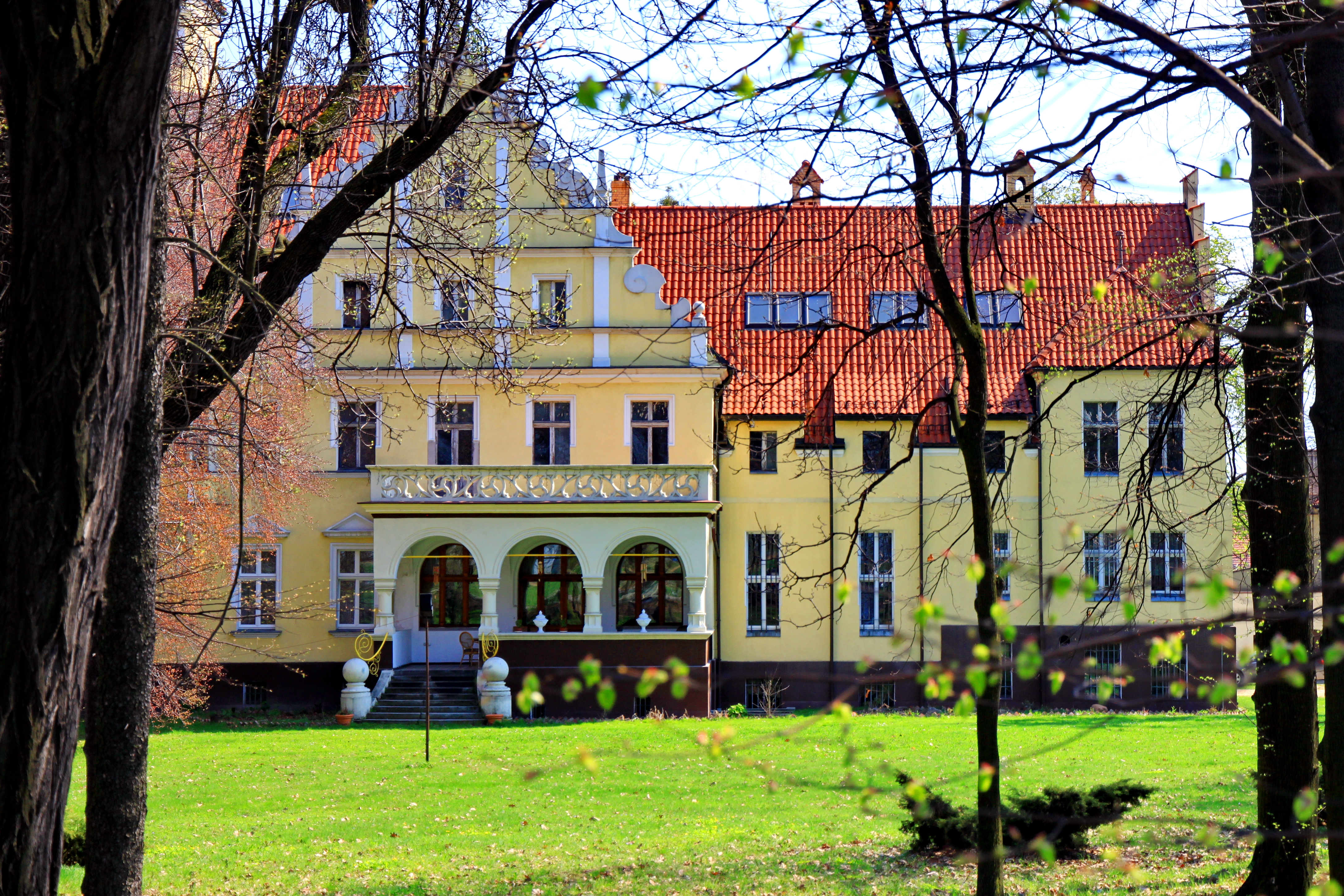 Ornontowice, palace, 1900, by Hugo Hartung